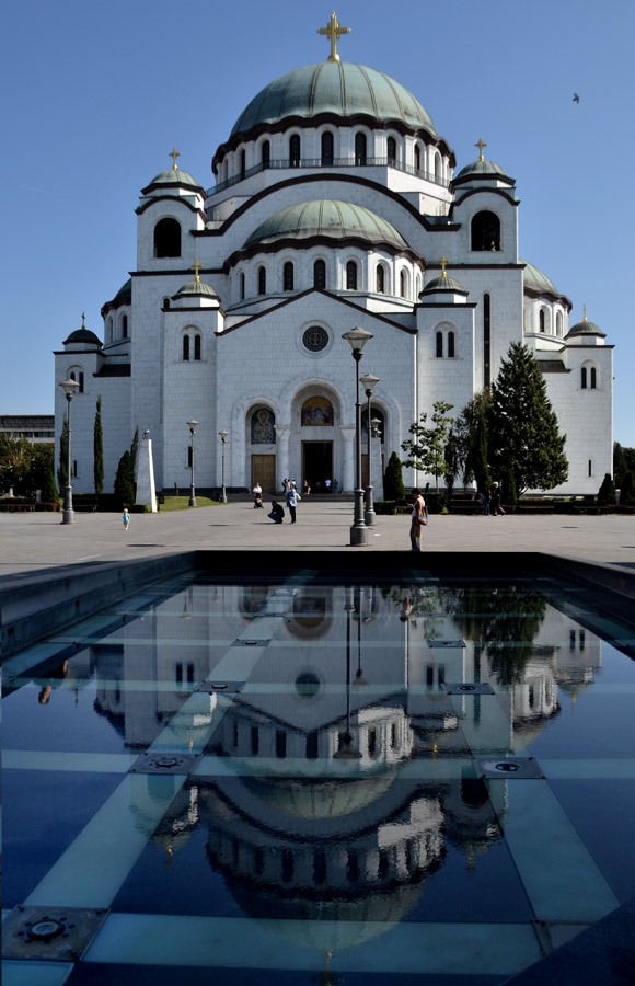 St Sava Temple, Belgrade